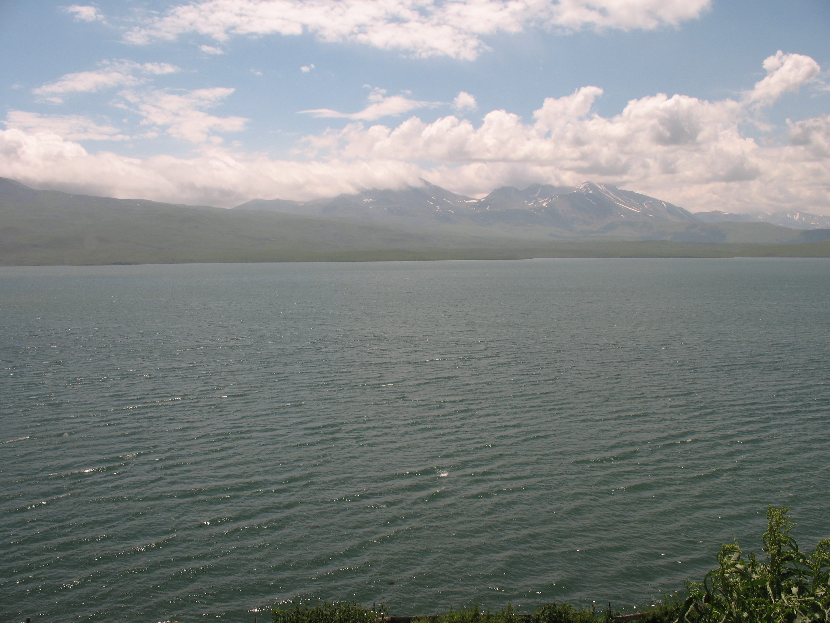 Tabatskuri lake